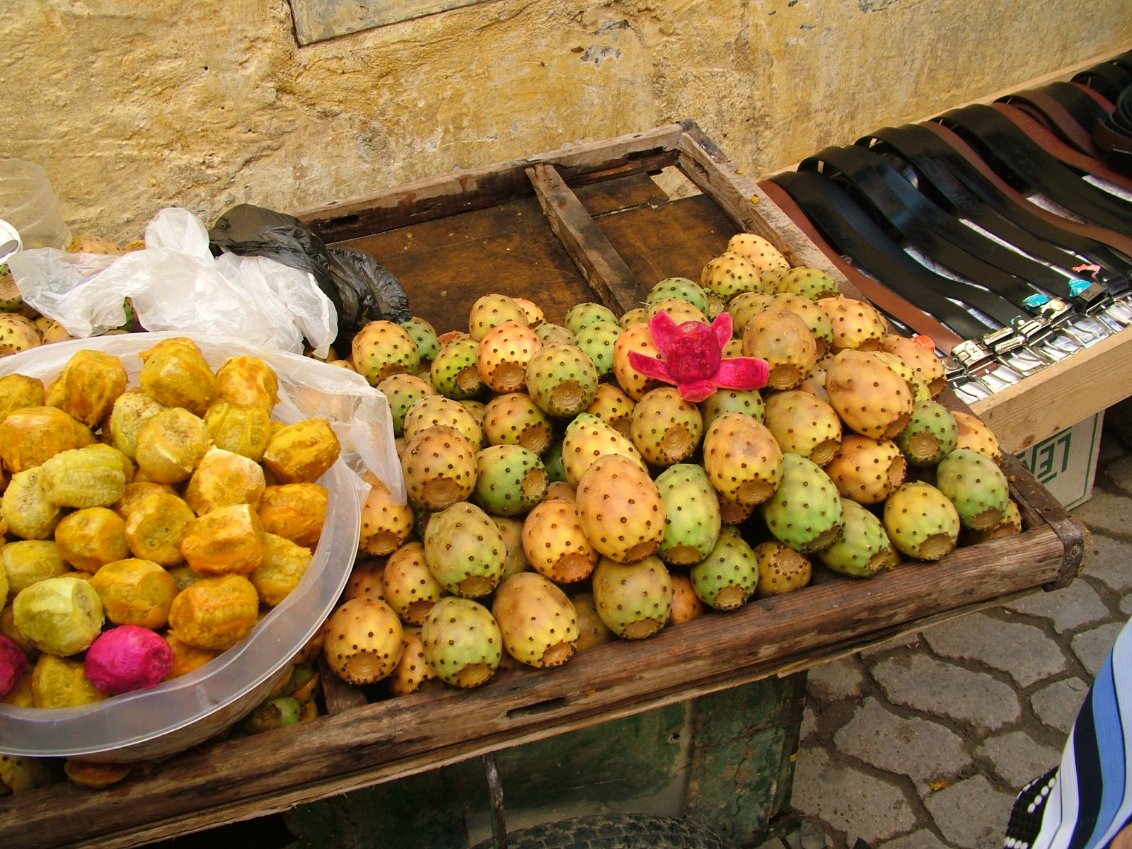 Prickly pears (peeled), Opuntia ficus-indica, Morocco